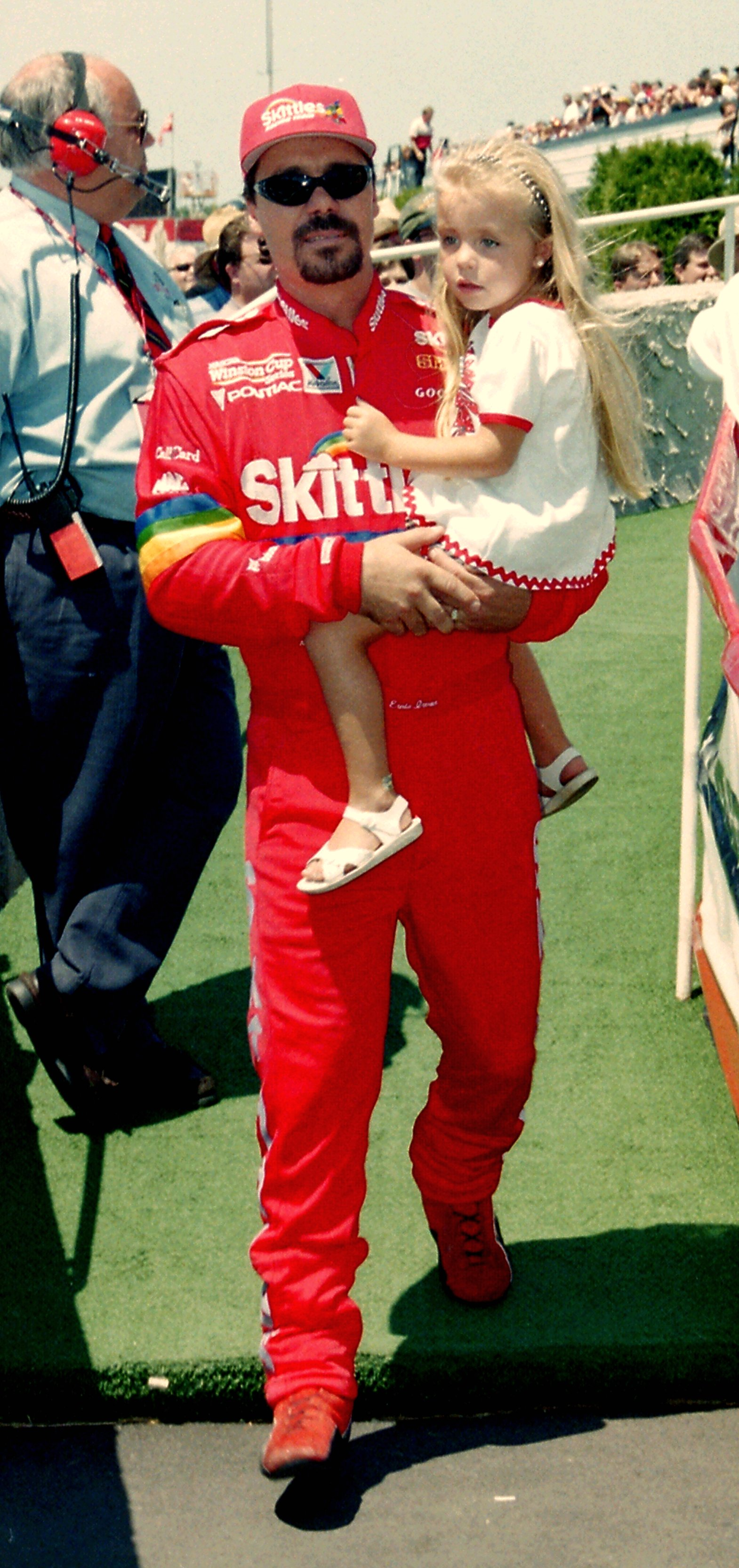 NASCAR Winston Cup Series driver Ernie Irvan with daughter Jordan in 1997.